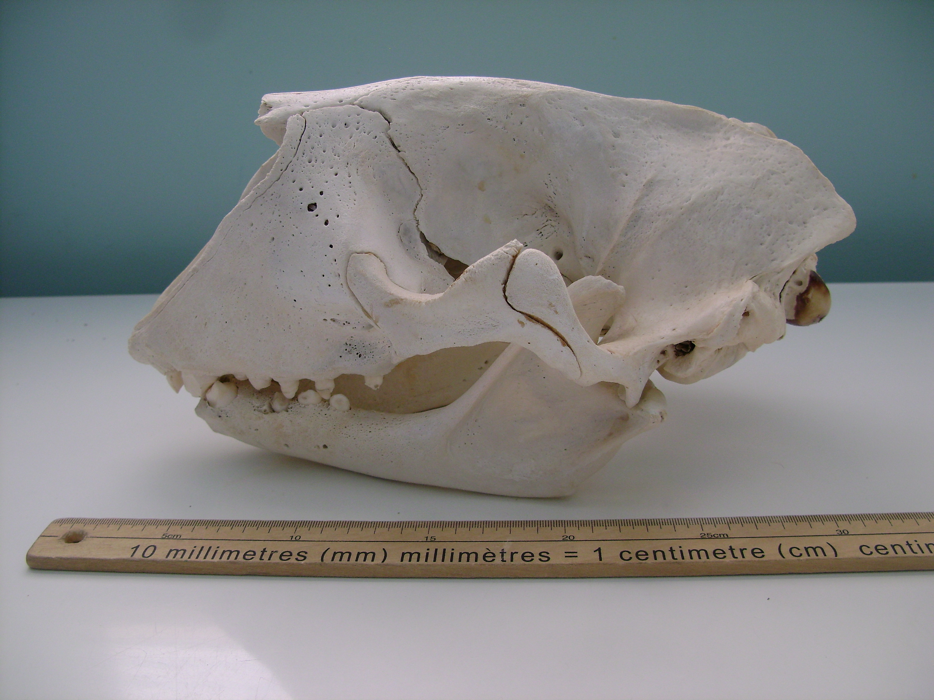 Adult grey seal (Halichoerus grypus) skull exposed at the Station exploratoire du Saint-Laurent, in Rivière-du-Loup, in the province of Québec